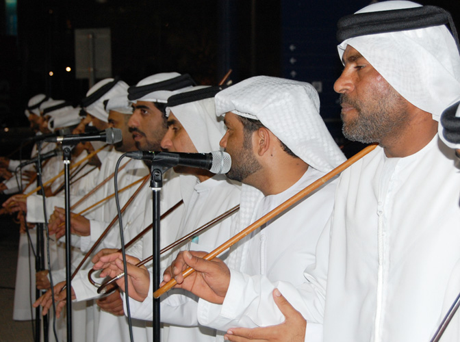 arabic cultural dance